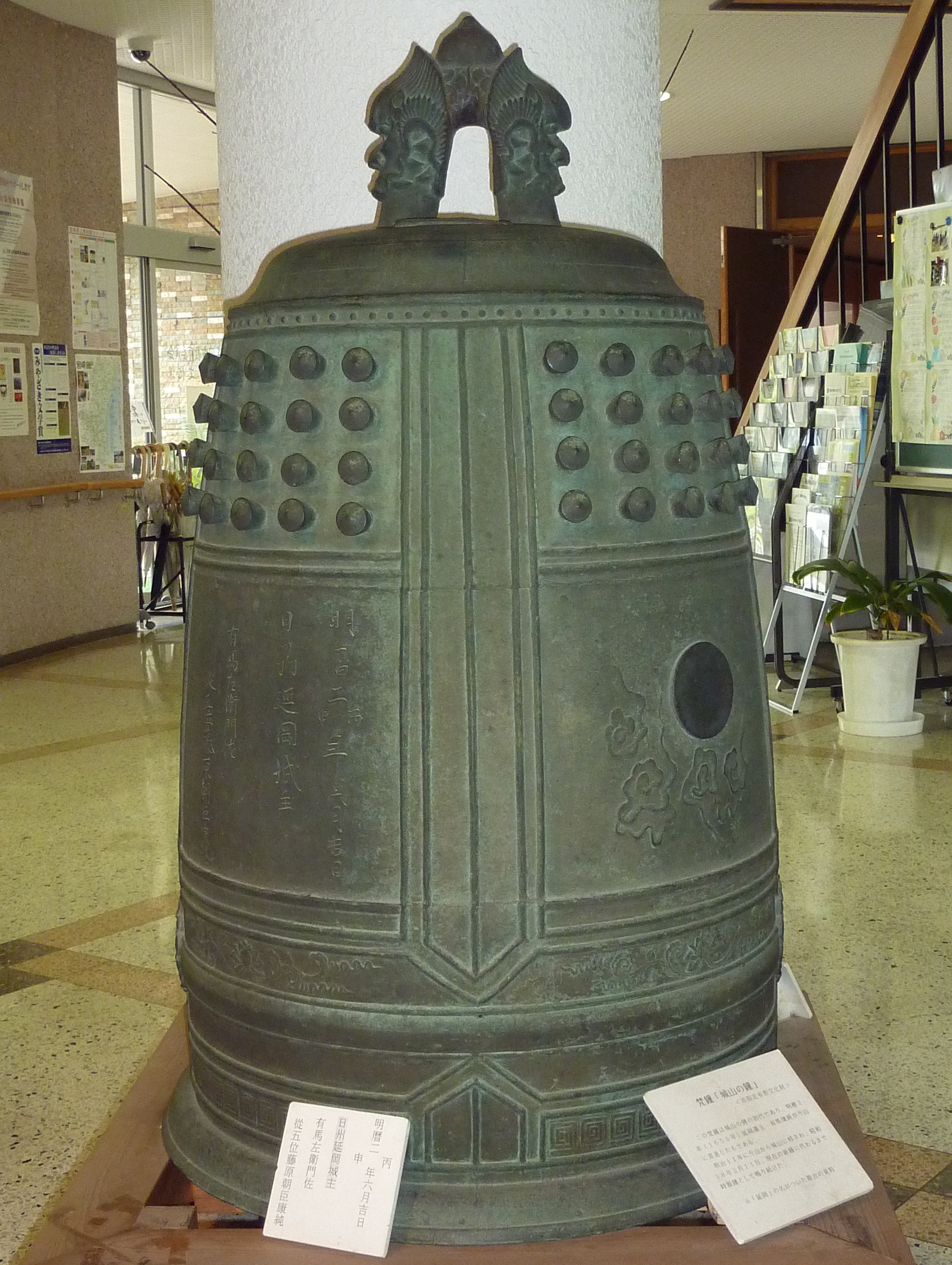 The Temple Bell of Shiroyama 1st (Naito Memorial Center, Nobeoka City, Miyazaki, Japan)